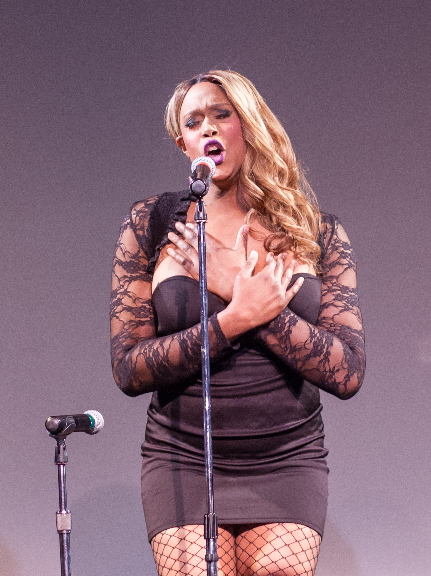 Breanna Sinclairé performs at the 2016 Trans Day of Visibility celebration in San Francisco.